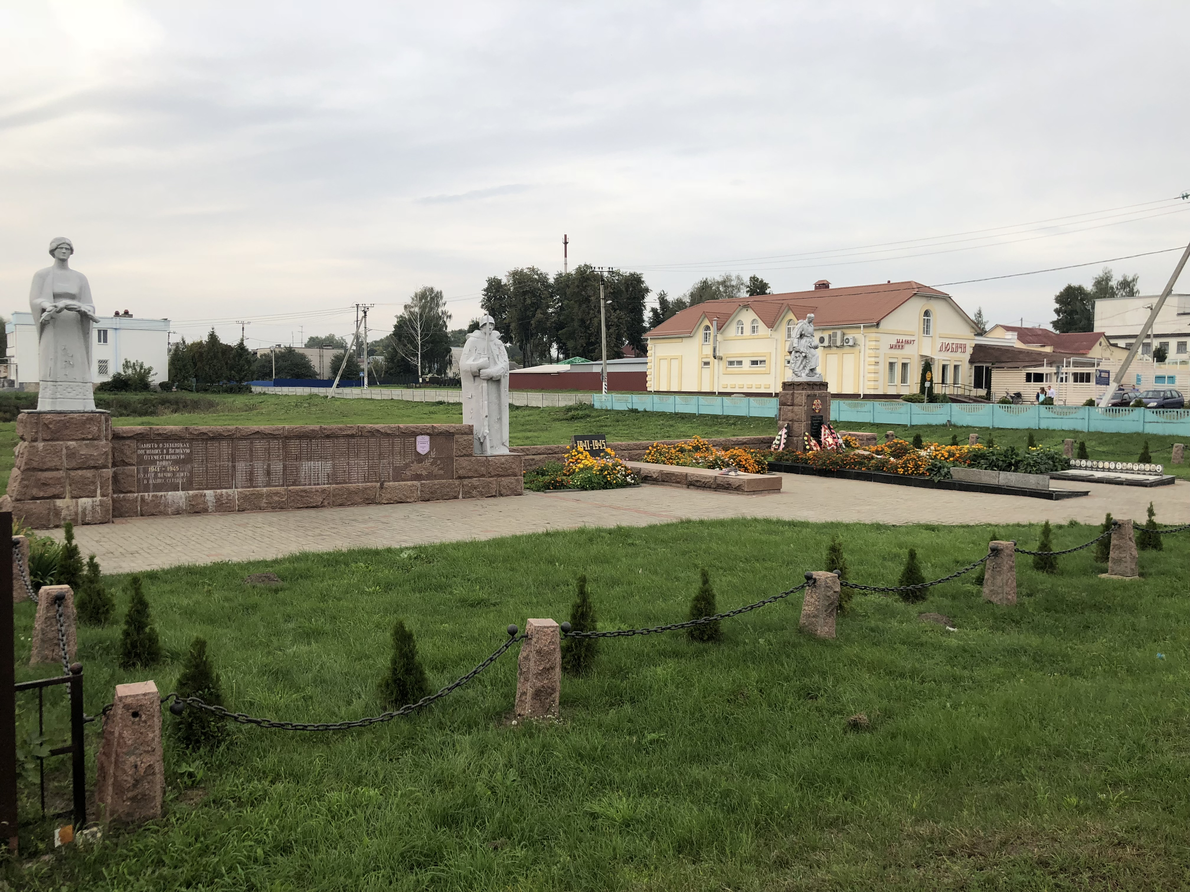 Pokolubichi Monument, Gomel Region, September 2018